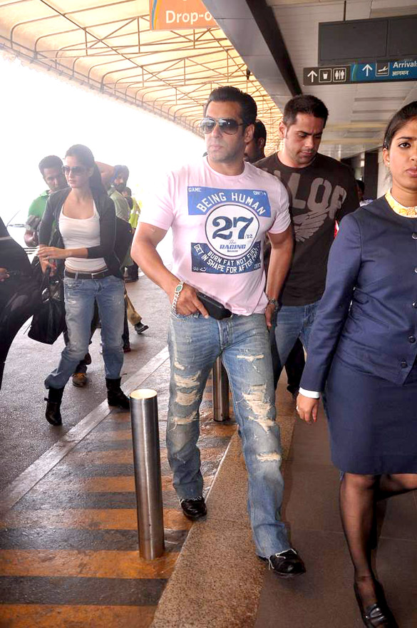 Salman and Katrina snapped leaving for Bangkok schedule of 'Ek Tha Tiger'